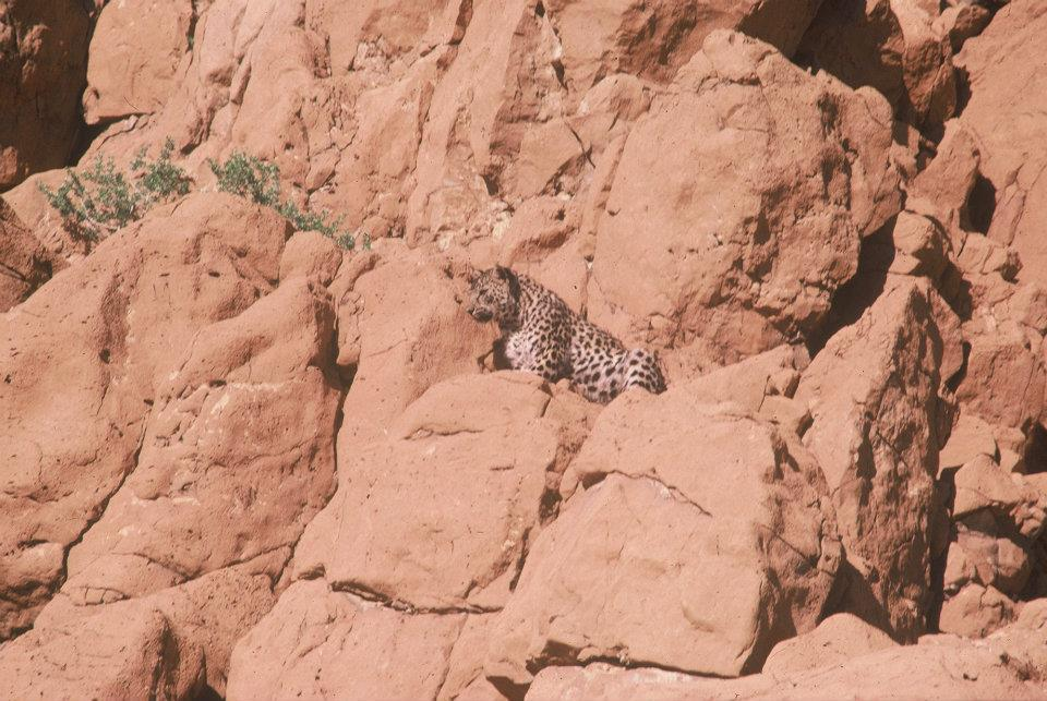 Leopard in the Judean desert photographed by